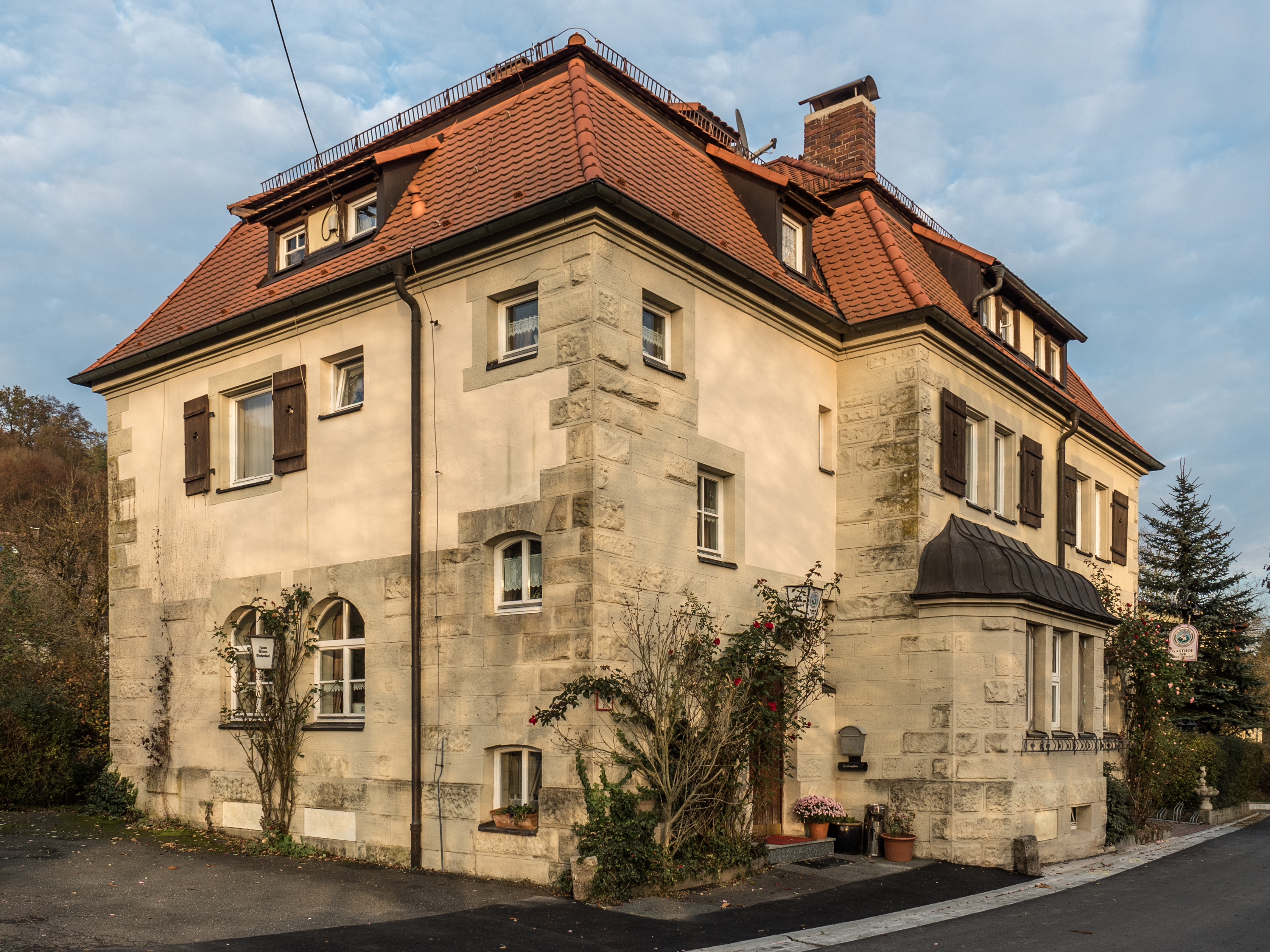 Former station building in Ebrach